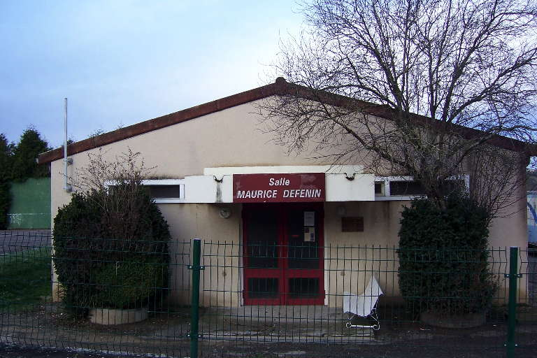 Picture of village hall "Maurice Defenin" of Montfaucon in Lot, France.